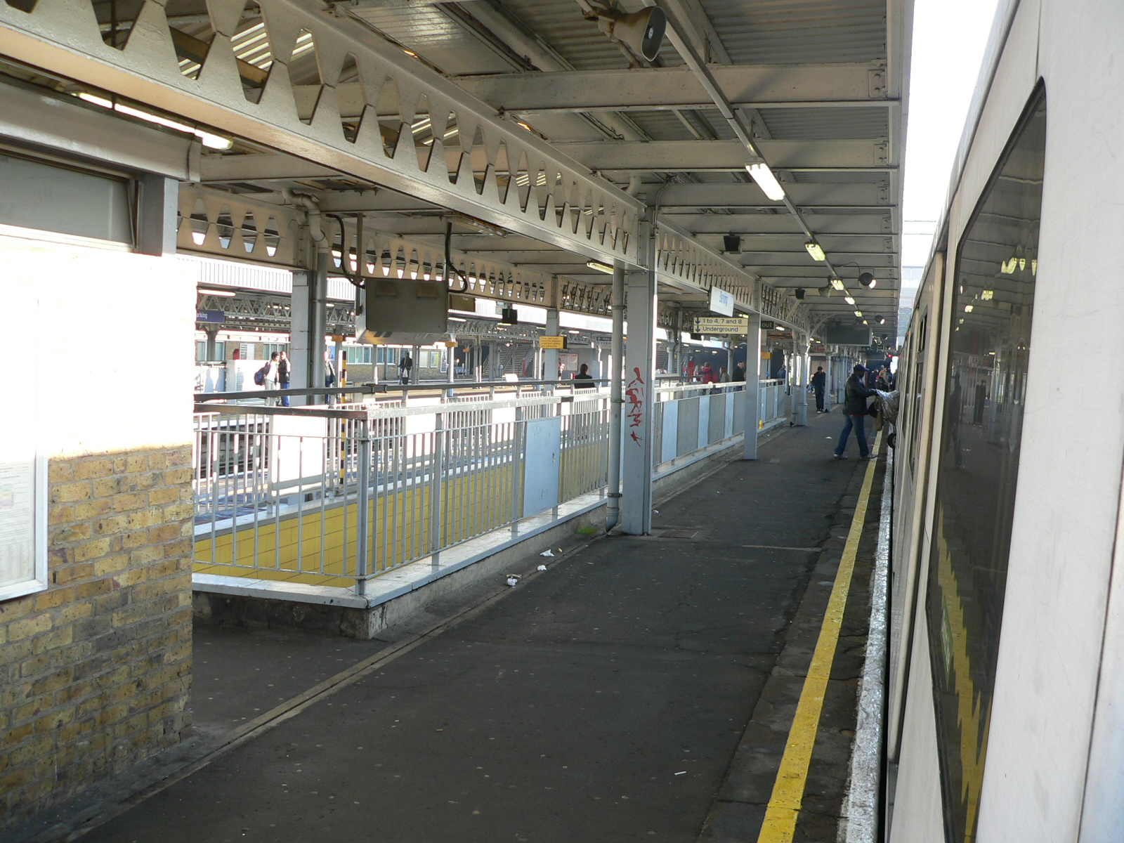 The westbound District Line platform at Barking station, viewed from the forward-most passenger doorway.